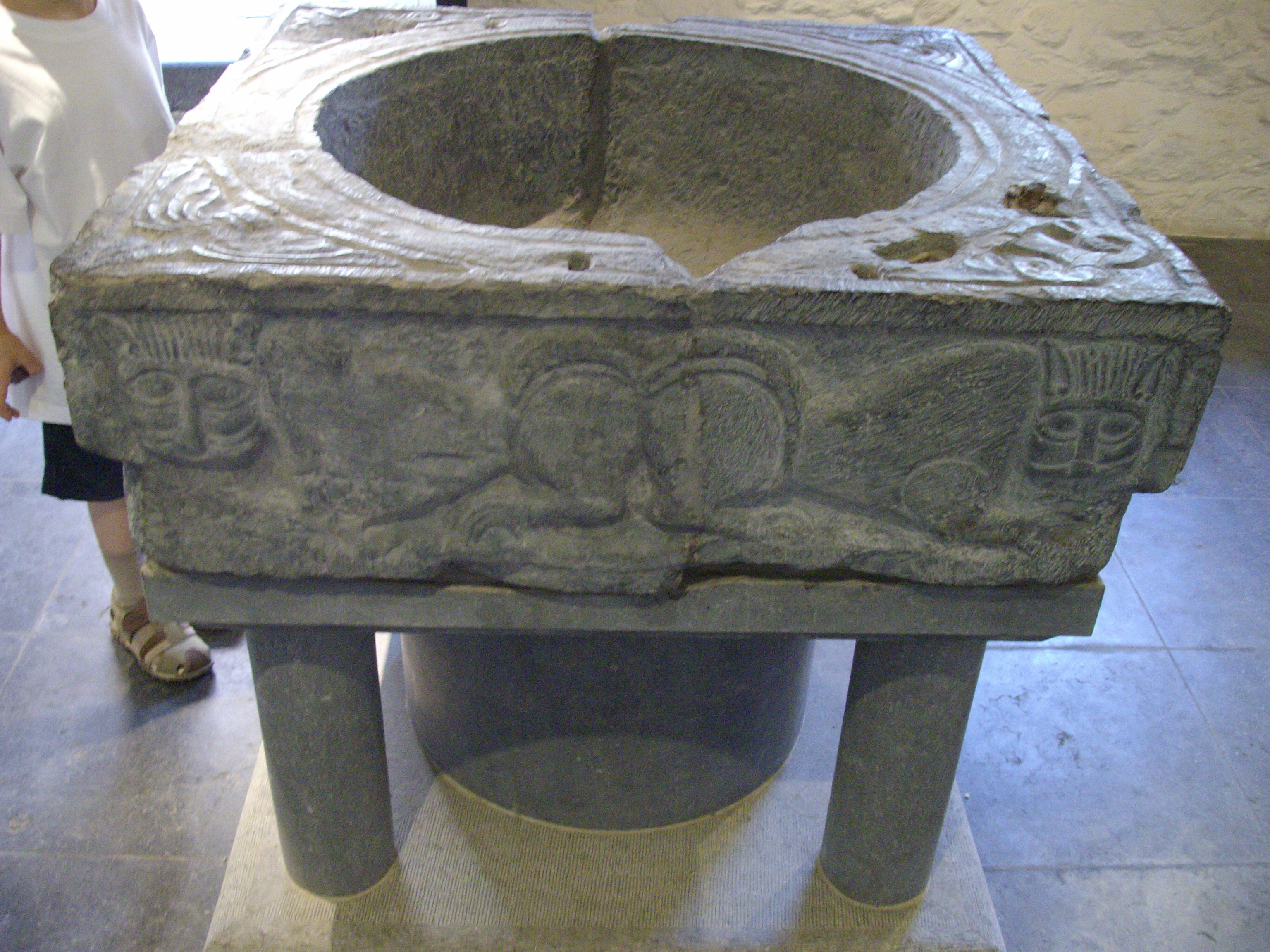 Museum of the collegiate saint-Vincent chapter at Soignies in Belgium